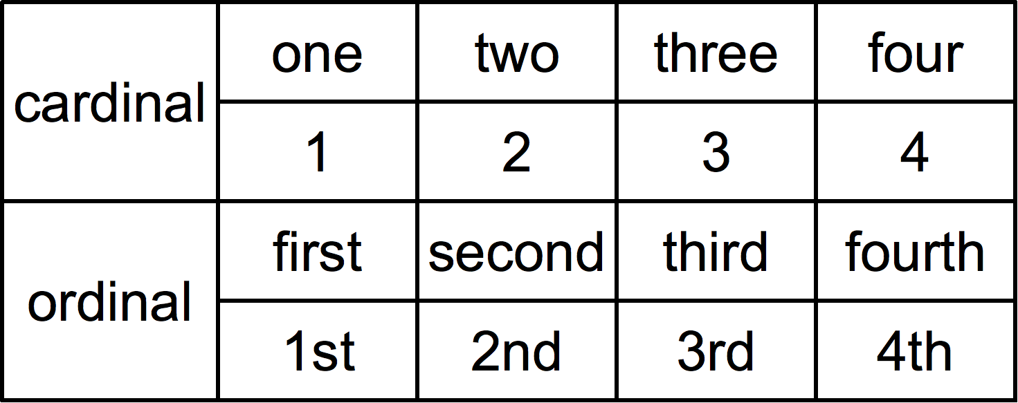 Cardinals versus ordinals.